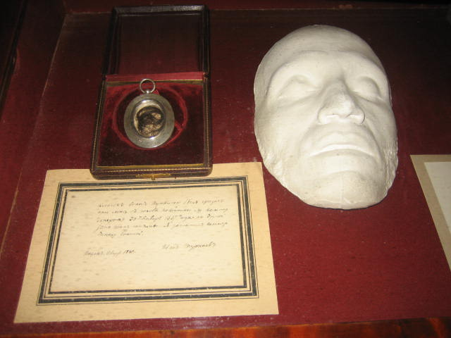 Death mask and hair of Alexander Pushkin in Pushkin museum на Moyka River, 12, Saint Petersburg